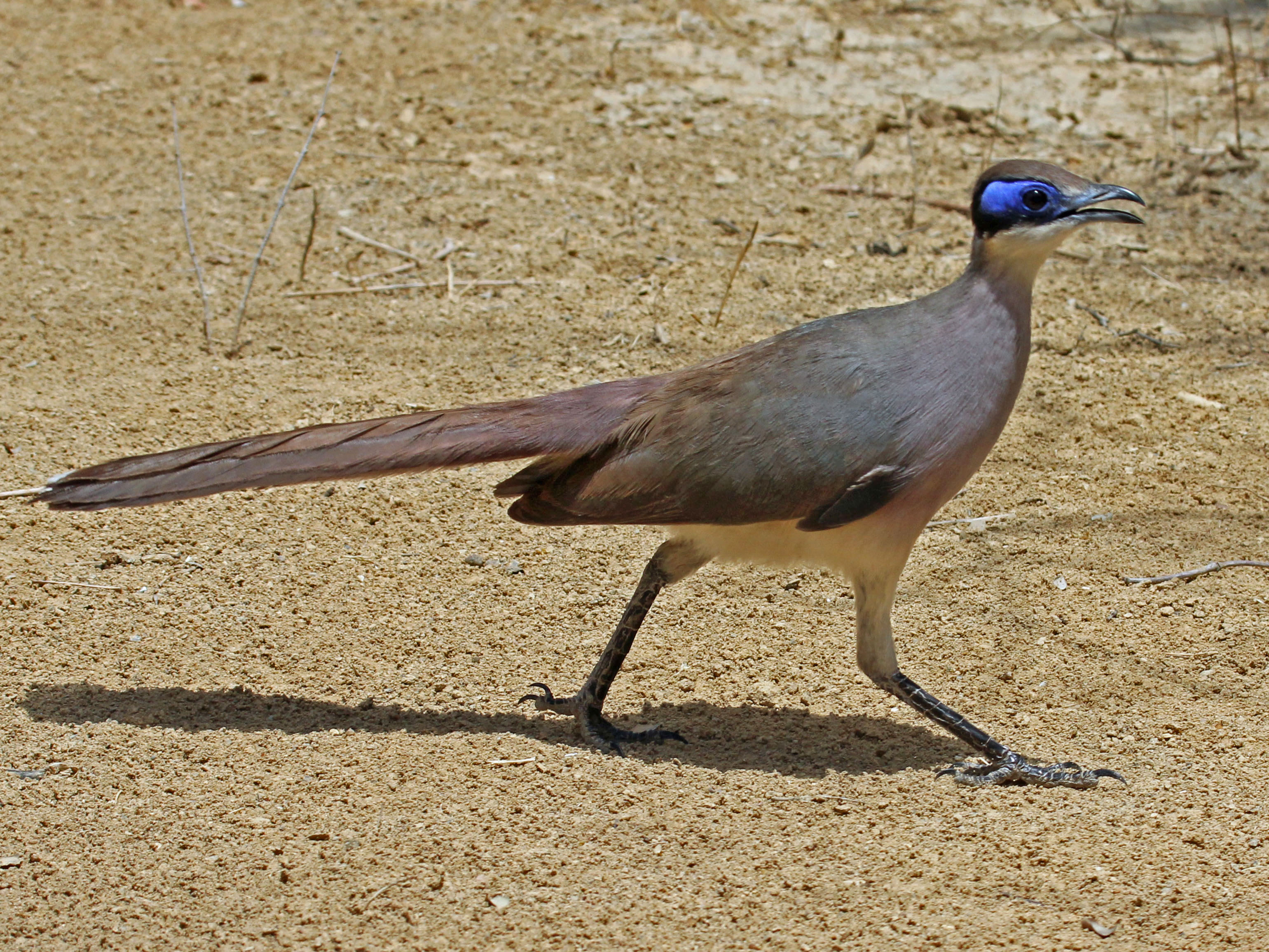 Red-capped Coua (Coua ruficeps) - Arboretum near Tulear, Madagascar. This was a wild bird and it was subspecies Green-capped Coua (Coua ruficeps olivaceiceps).